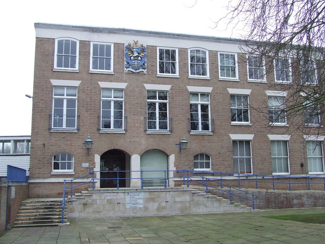 Entrance to shirehall Bury St.Edmunds The front entrance to shirehall Bury St.Edmunds Suffolk.